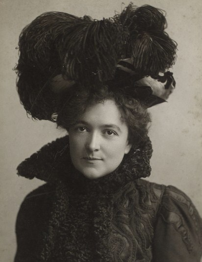 Blanche Bates (1873-1941) actress, head and shoulders, wearing hat with feathers